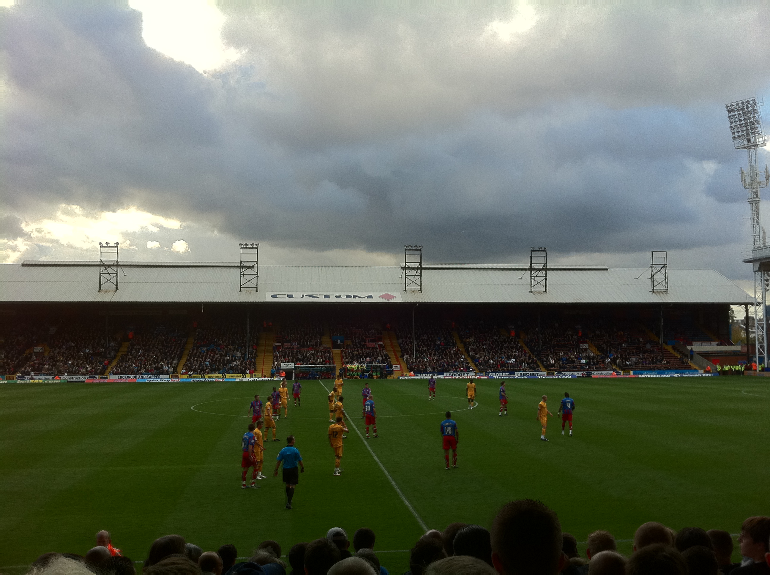 Crystal Palace play Millwall at Selhurst Park on 16 October 2010.